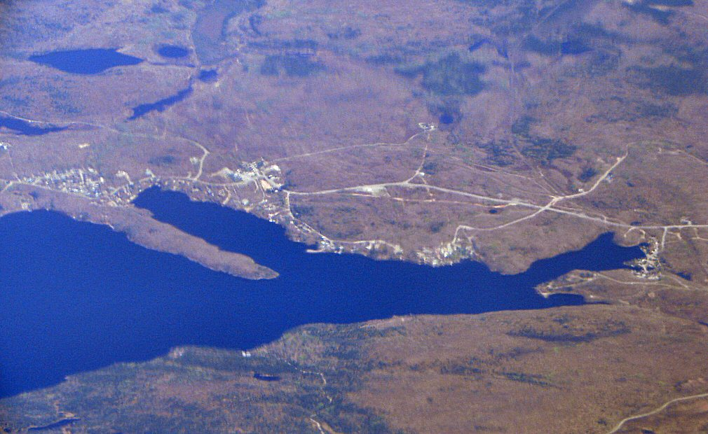 Skead on the shores of Lake Wanapitei, Ontario, Canada, with the community and bay of Boland's Bay at the far right